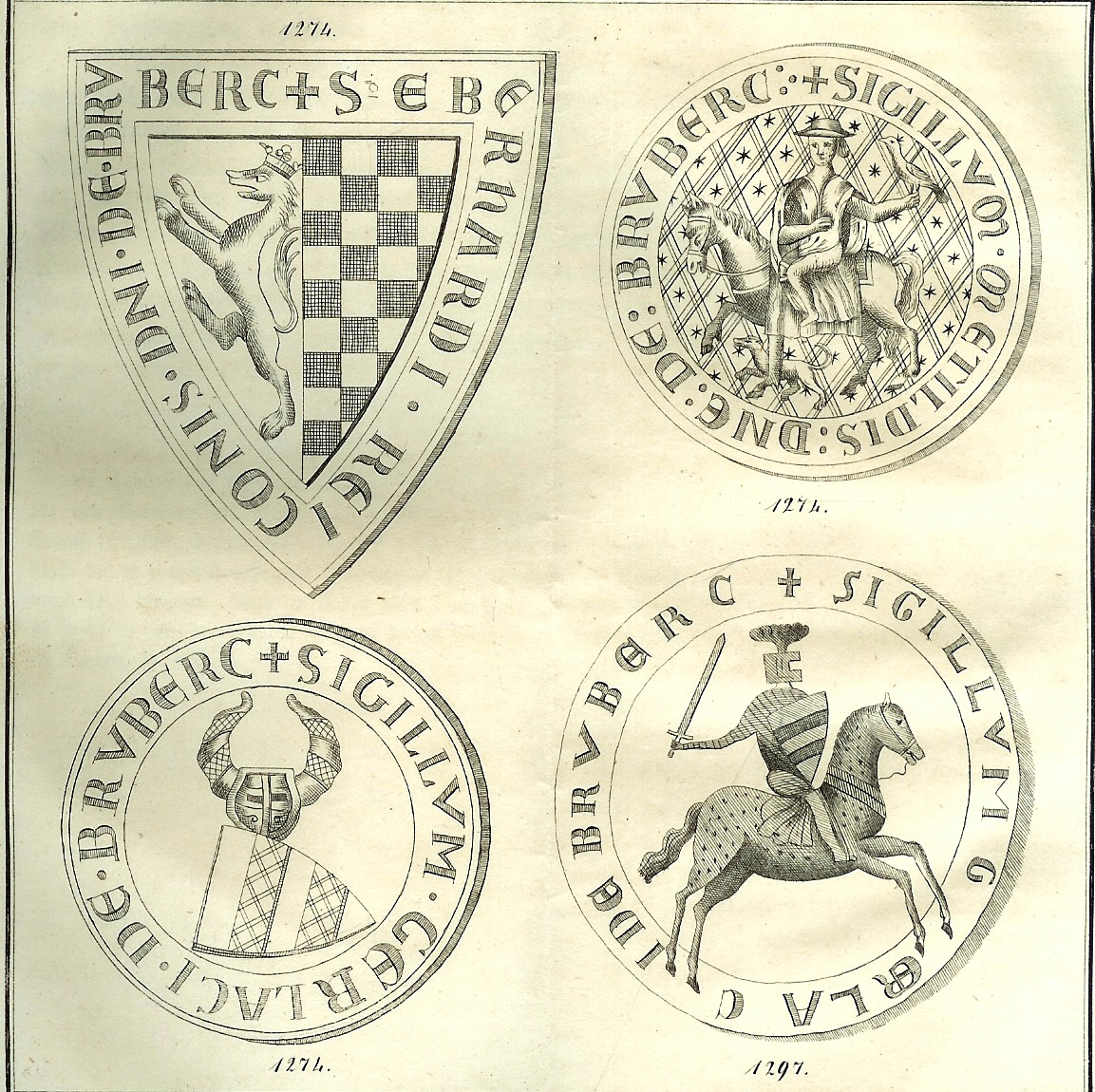 Various Breuberg Seals